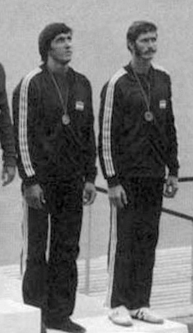 C2-1000 m canoe racing podium at the 1976 Olympics, Left-right: Tamás Buday, Oszkár Frey.